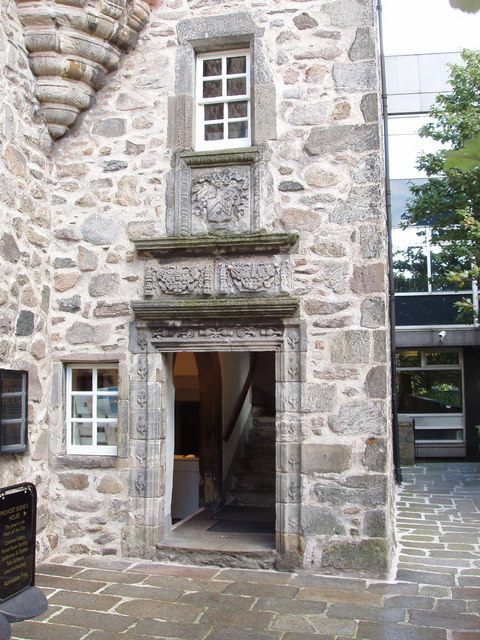 Doorway of Provost Skene's House. Doorway of this 16th Century town house. See 560164 for more information on the house. Just inside on the left is an excellent café, busy mid-morning with pensioners enjoying a concessionary rate. The helpful receptionist came out and offered to take a photo of the two of us when he saw me photographing; very welcome as we don't get many photos with both of us.